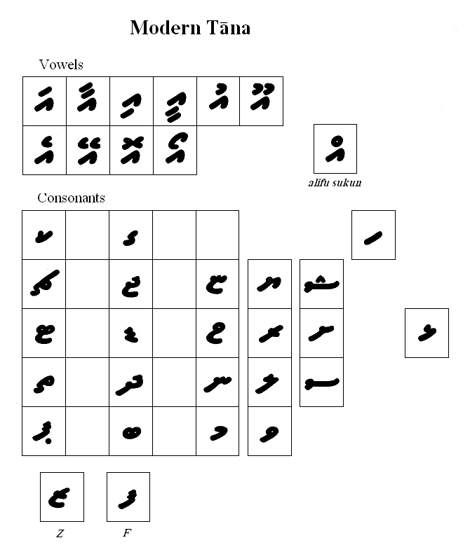 own drawing Drawing for the reedition of Bodufenvaluge Sidi's book "Divehi Akuru" by Xavier Romero-Frias.